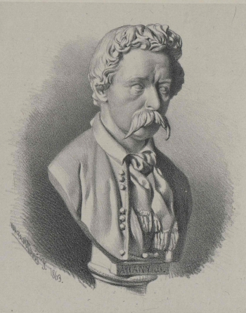 Arany, János (1817 - 1882), Izsó Miklós portréja Arany Jánosról